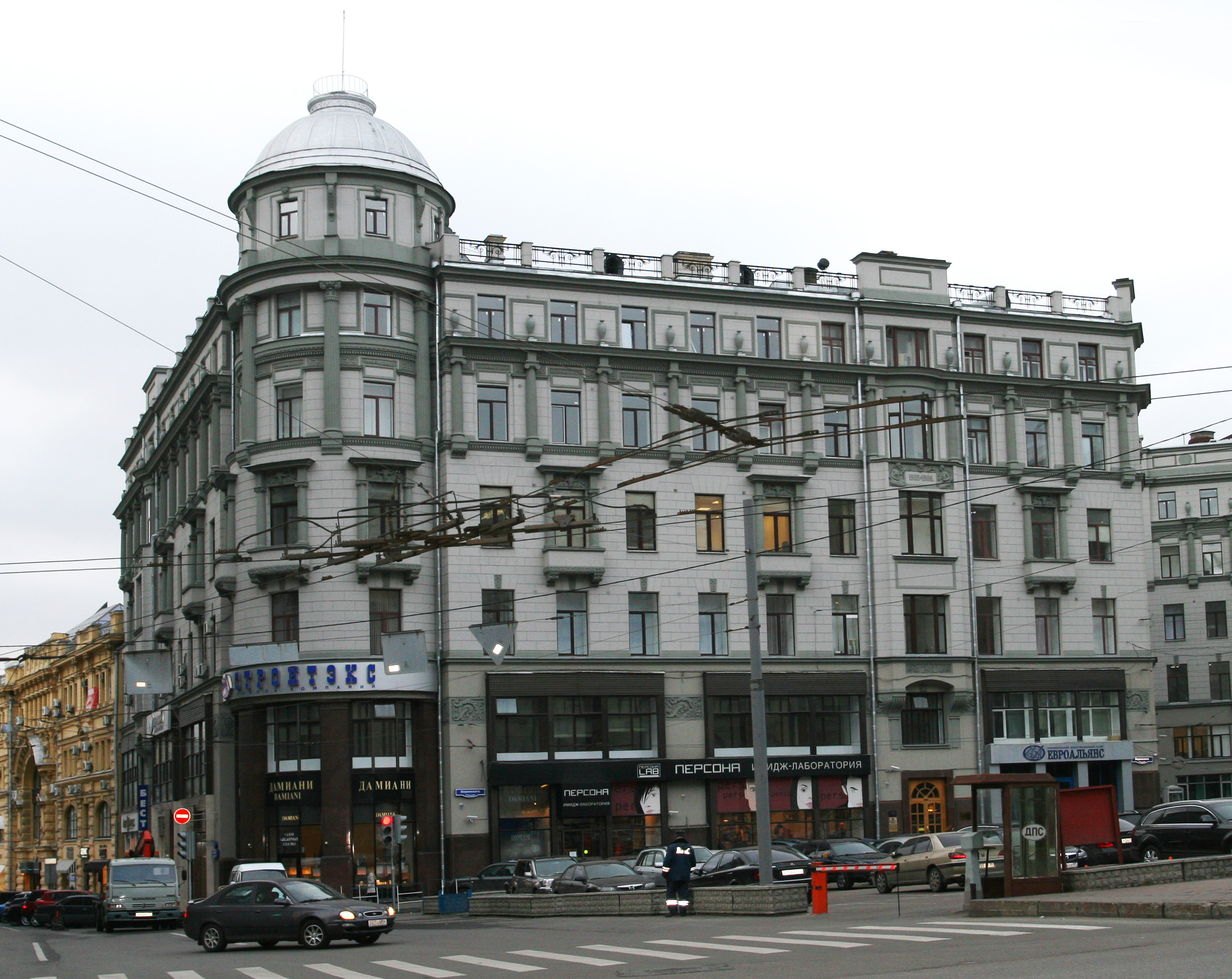 Moscow, Kuznetsky Most Street 21/5